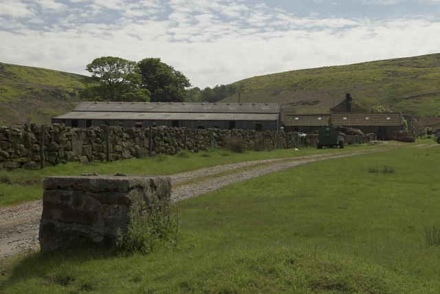 Waites House Farm. The stone platform would have been used to stand milk churns on, before about 1975 when almost all milk was collected in bulk by tankers. This made it easier for the collection lorry driver to loaden them